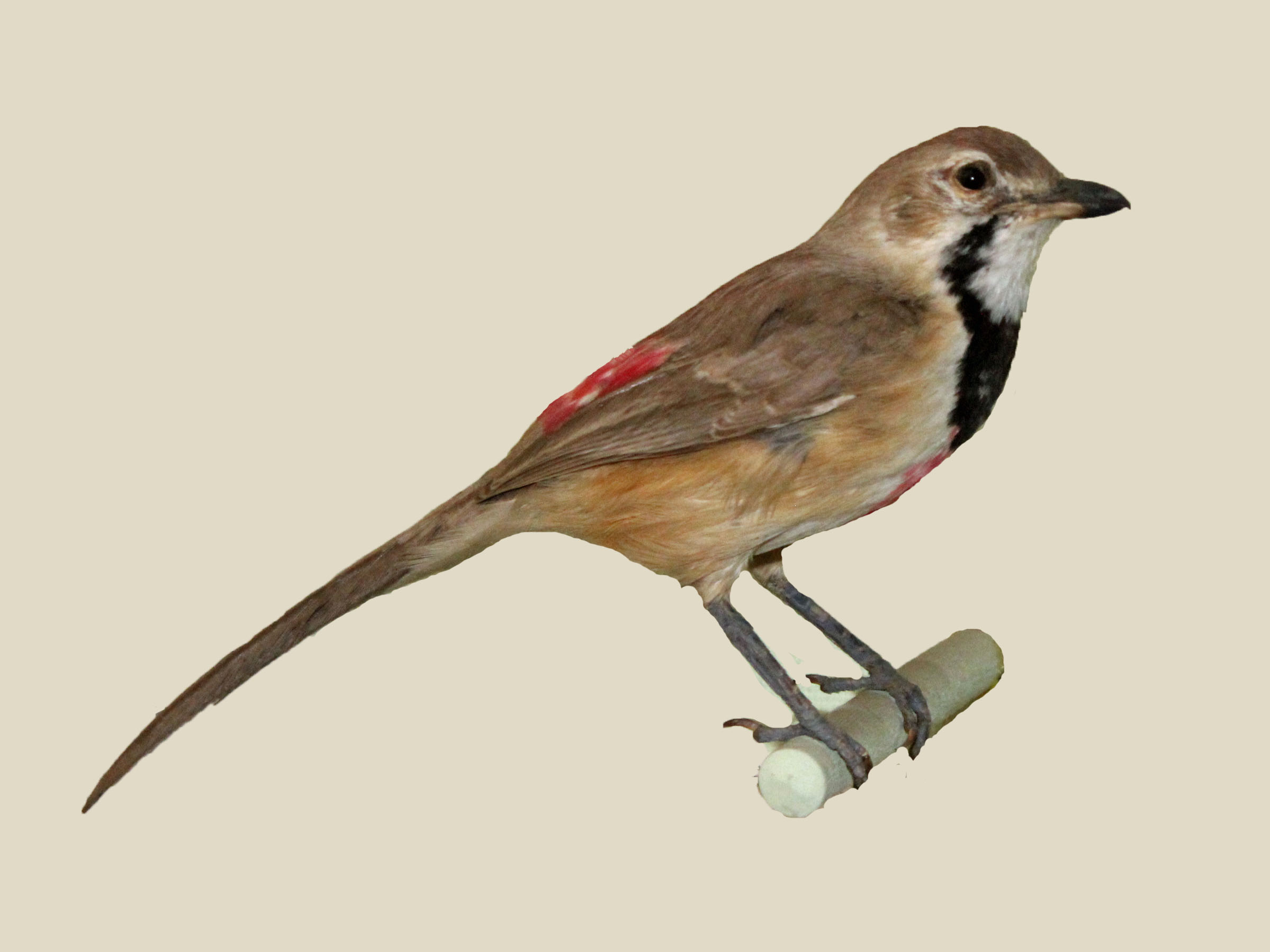 Female Rosy-patched Bushshrike (Rhodophoneus cruentus). Photograph of a specimen at Nairobi National Museum in Nairobi, Kenya.